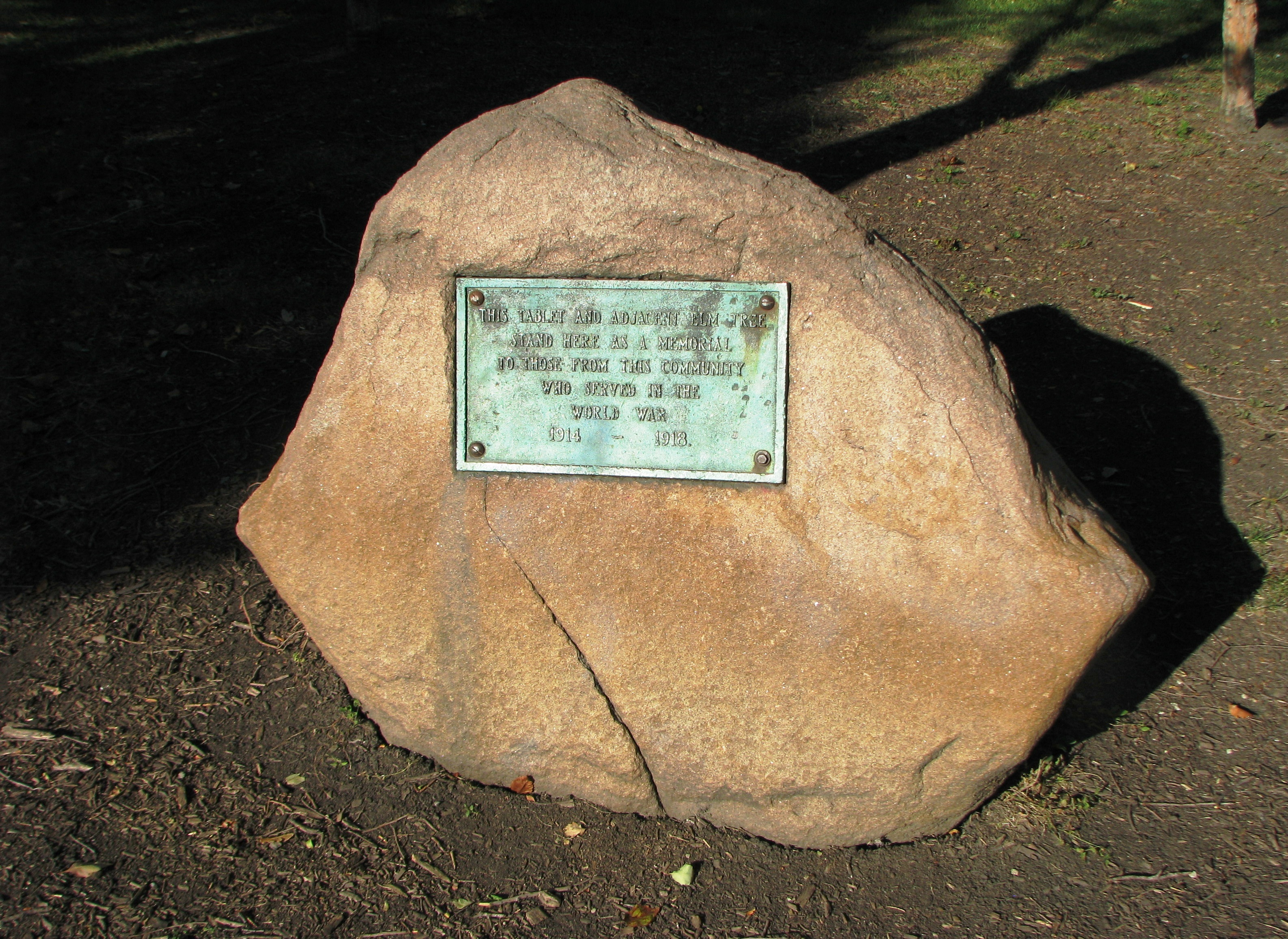 World War I memorial monument located in Marquette Park in Chicago.